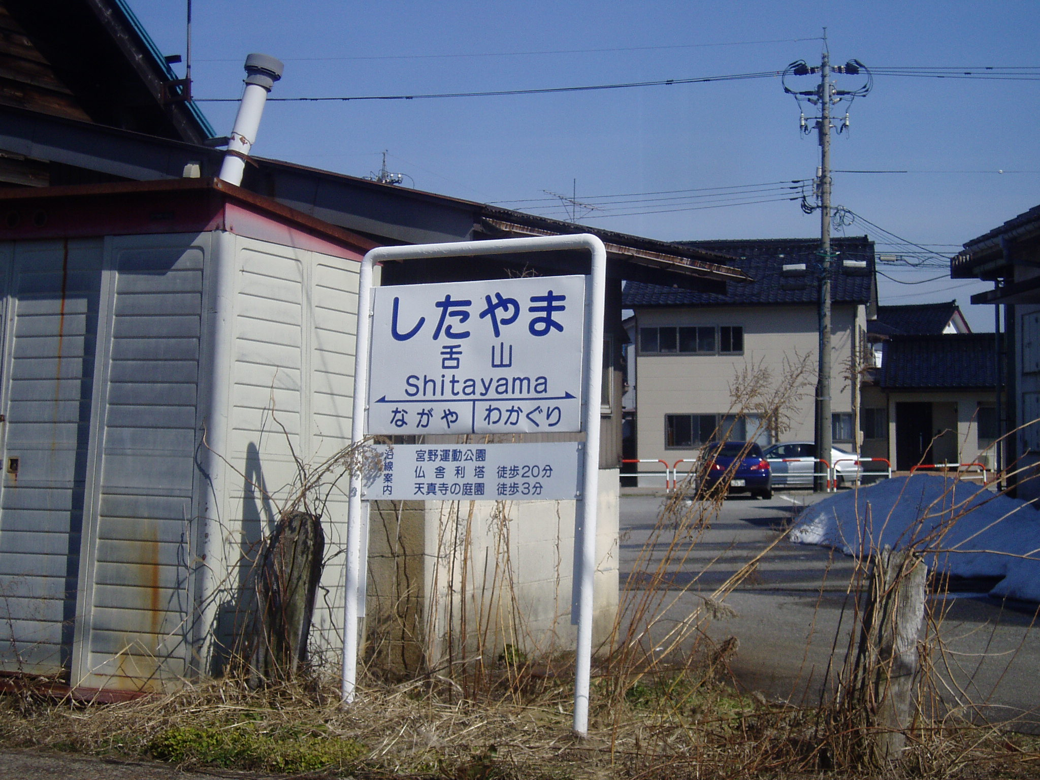 This is Shitayama Station in Toyama Chihou Railway.